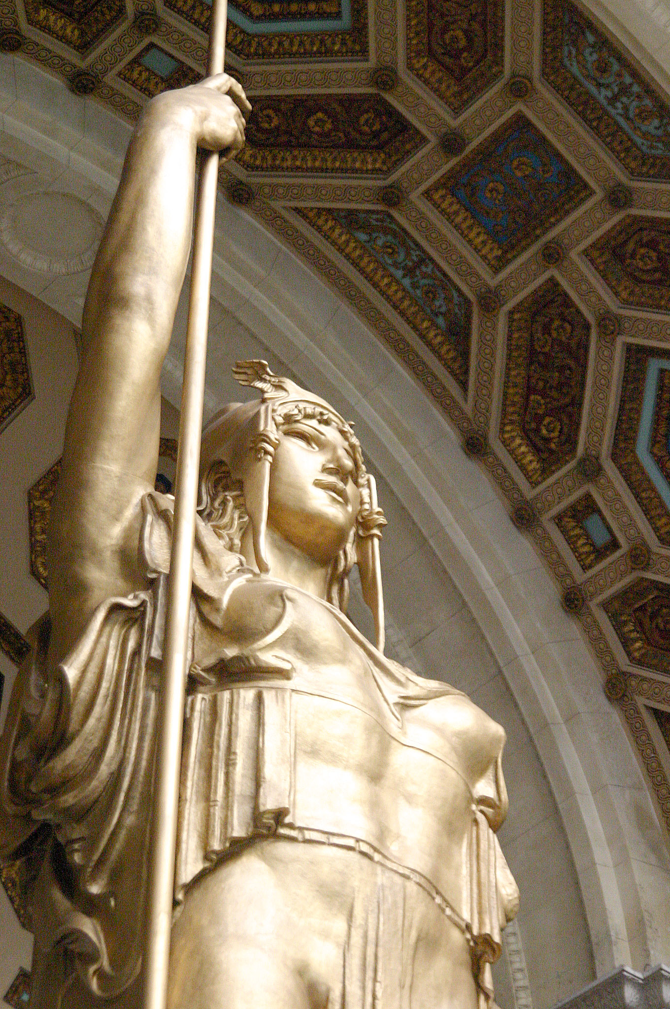 The Statue of the Republic inside Capitolio, Havana, Cuba, December 2006